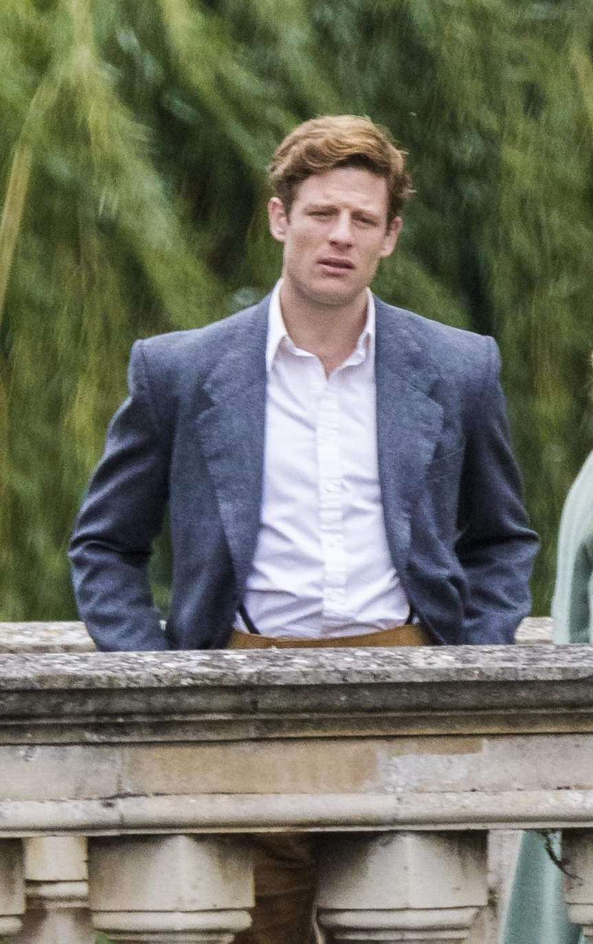 James Norton filming Grantchester on Clare College Bridge - Cambridge.- image trimmed to focus on person